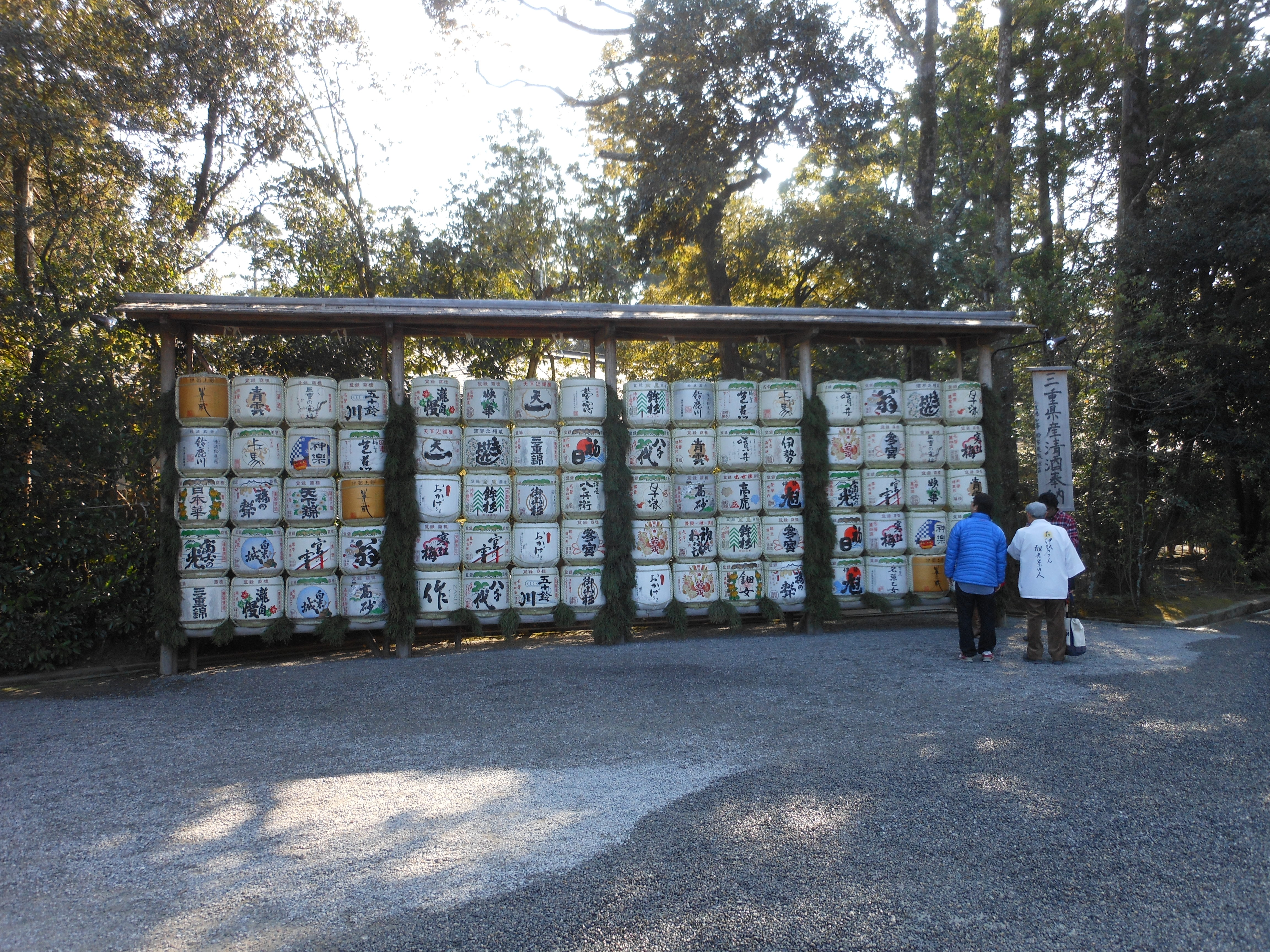 These are sakes which is produced in Mie prefecture. These sakes are dedicated to Amaterasu, a god of Ise Jingū.